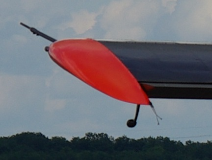 Wingtip of a MH-1521 Broussard.